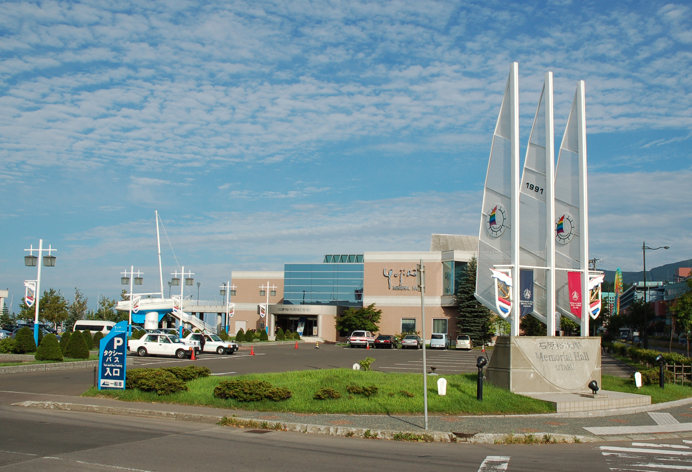 Yuujirou Ishihara Memorial Hall in Otaru, Hokkaido, Japan. September 2010.